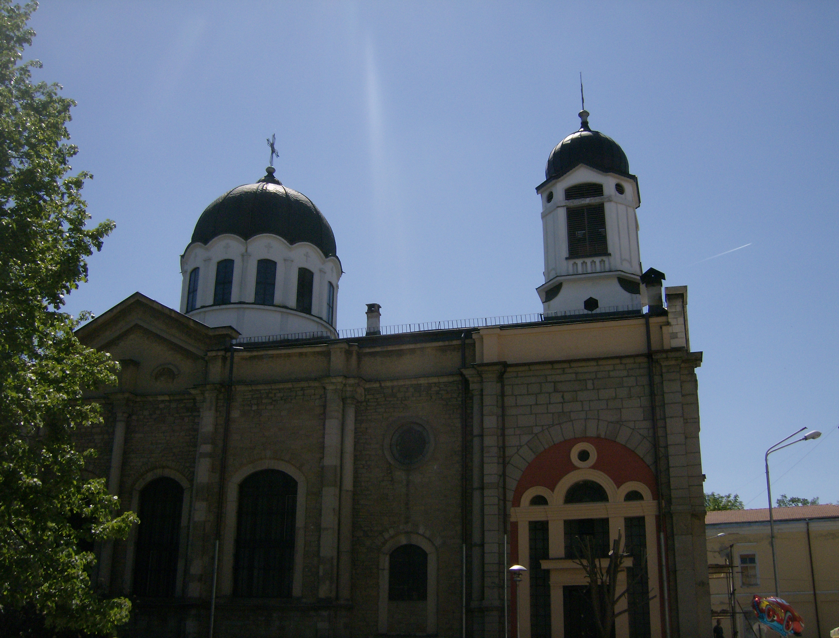 Trinity Church